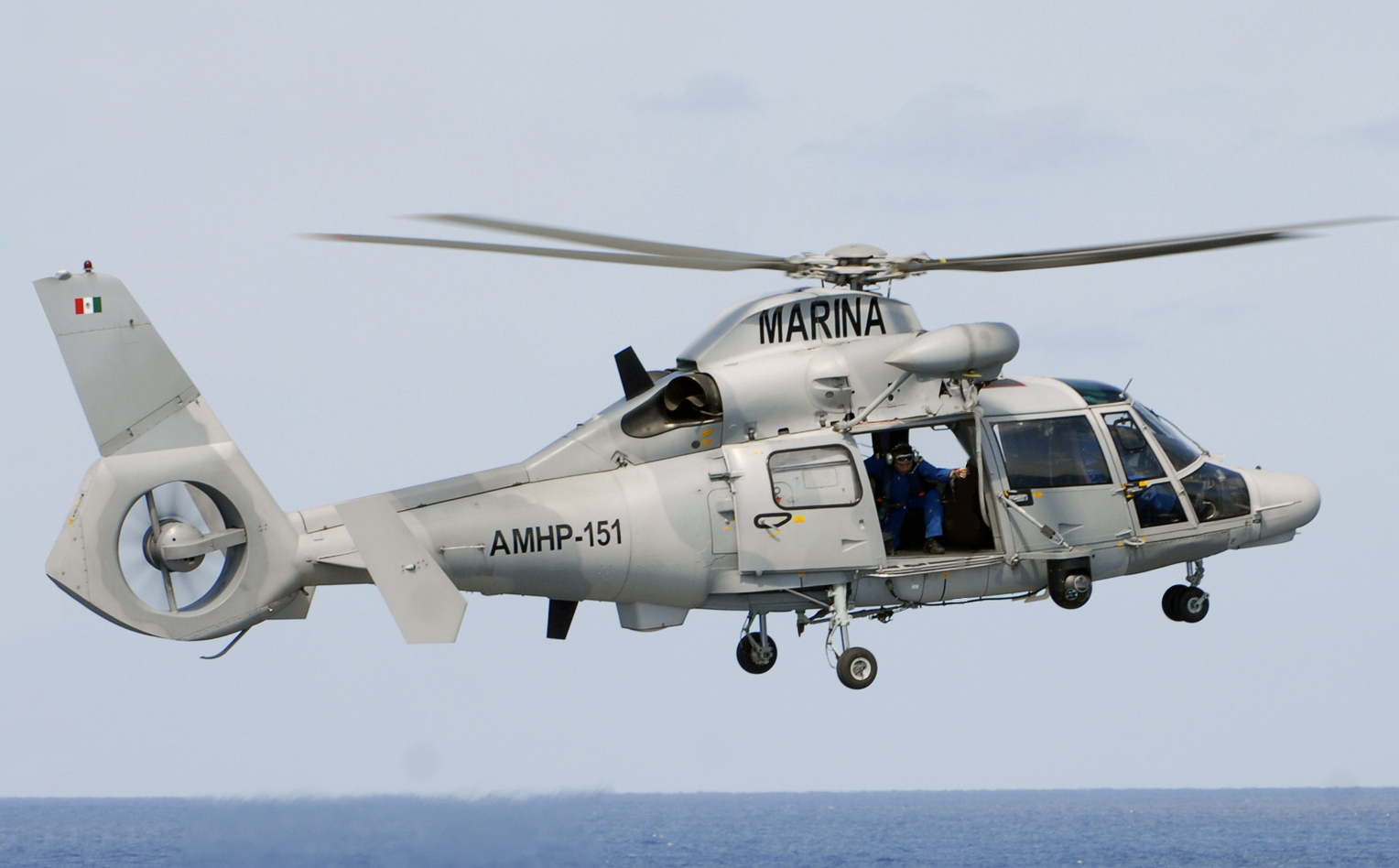 A Mexican AS565 hovers over the deck of the German Combat Support Ship Frankfurt Am Main (A1412) during a simulated multi-national maritime interdiction operation